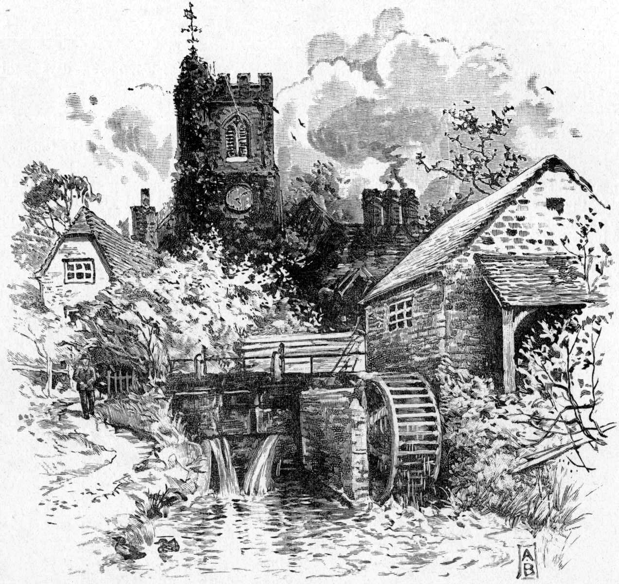 The Maid of the Mill